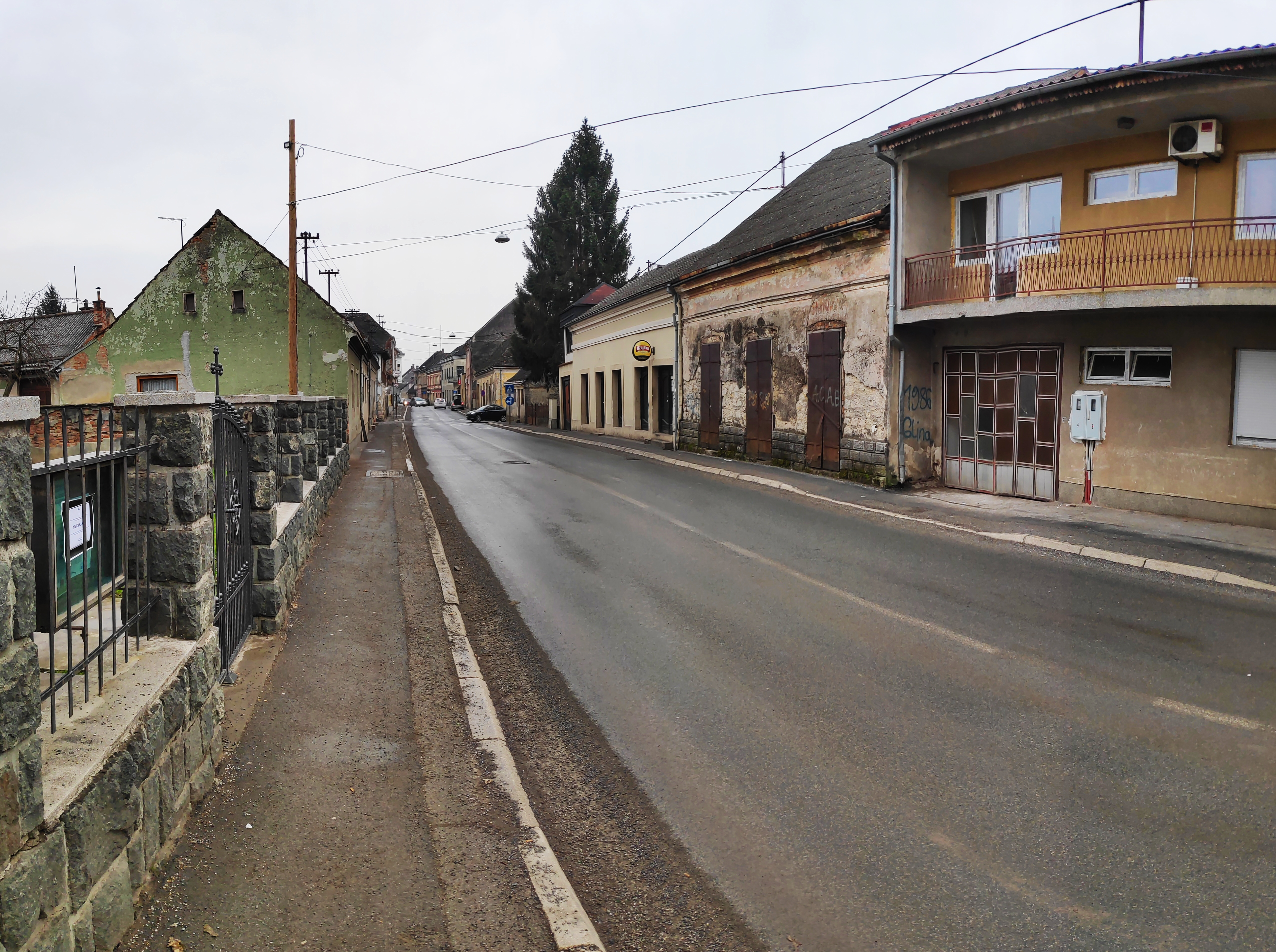 Hrvatska ulica, Glina